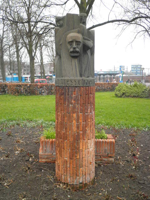 Statue of Johannes Messchaert, statue by Jozef Cantré. Noorderstraat, Hoorn, North Holland, the Netherlands.